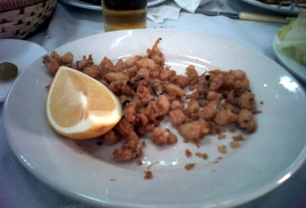 Puntillitas, a typical Andalusian tapa. Photo by E Asterion u talking to me?